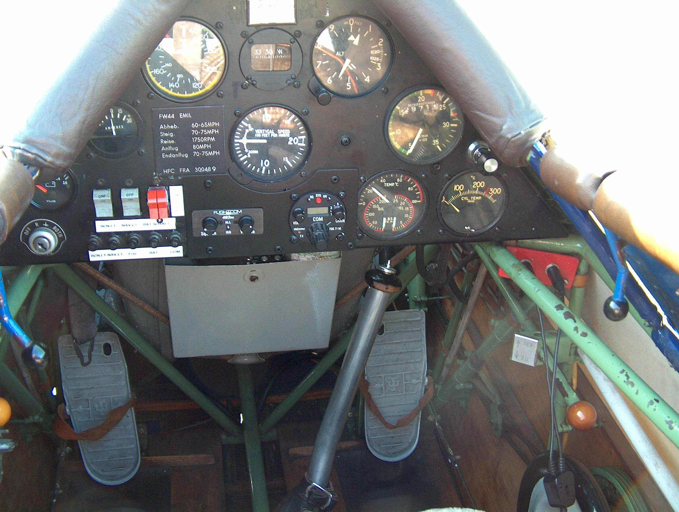 Cockpit of a german Focke-Wulf FW 44 Stieglitz Callsign D-EMIL Taken at an airshow in Ballenstedt